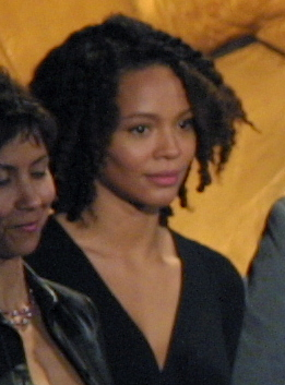 PHOTO CREDIT: ANDERS KRUSBERG / PEABODY AWARDS L to R: Shelby Stone, Carmen Ejogo, Jeffrey Wright, Clark Johnson and Norman Twain 61st Annual Peabody Awards Luncheon Waldorf=Astoria Hotel May 20, 2002